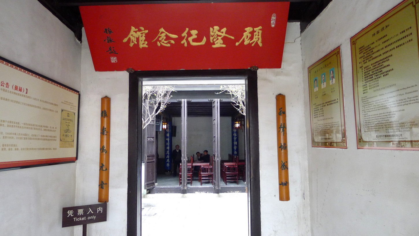 Gu Jian Museum in Qiandeng town